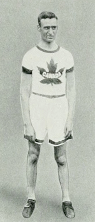 George Goulding